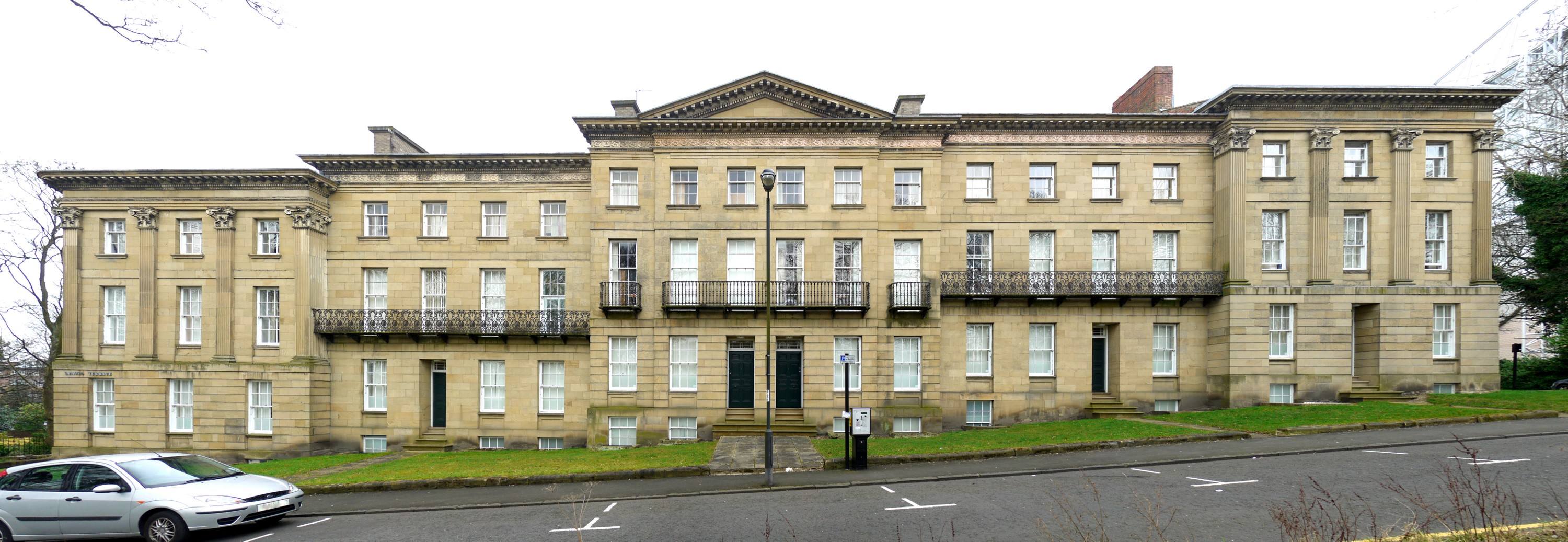 Leazes Terrace, north-west side The terrace was designed by Thomas Oliver for Richard Grainger (1829-34). This is the narrow end of the skewed rectangular block overlooking Leazes Park.